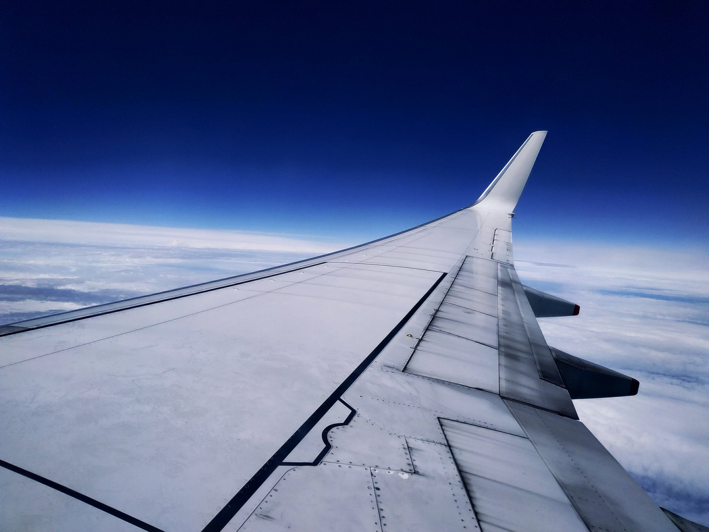 View of Boeing 737-800NG from 32,000 feet.